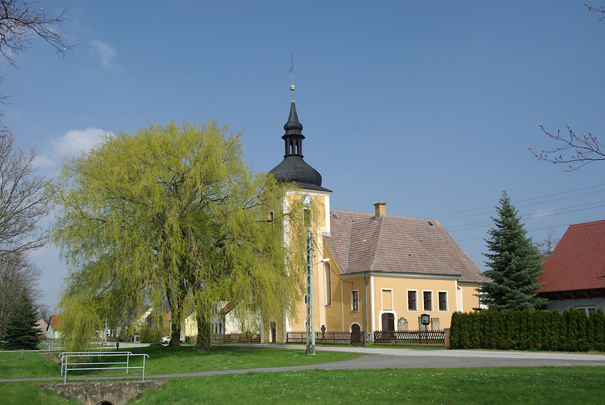 Church of Groß Schacksdorf, Brandenburg, Germany